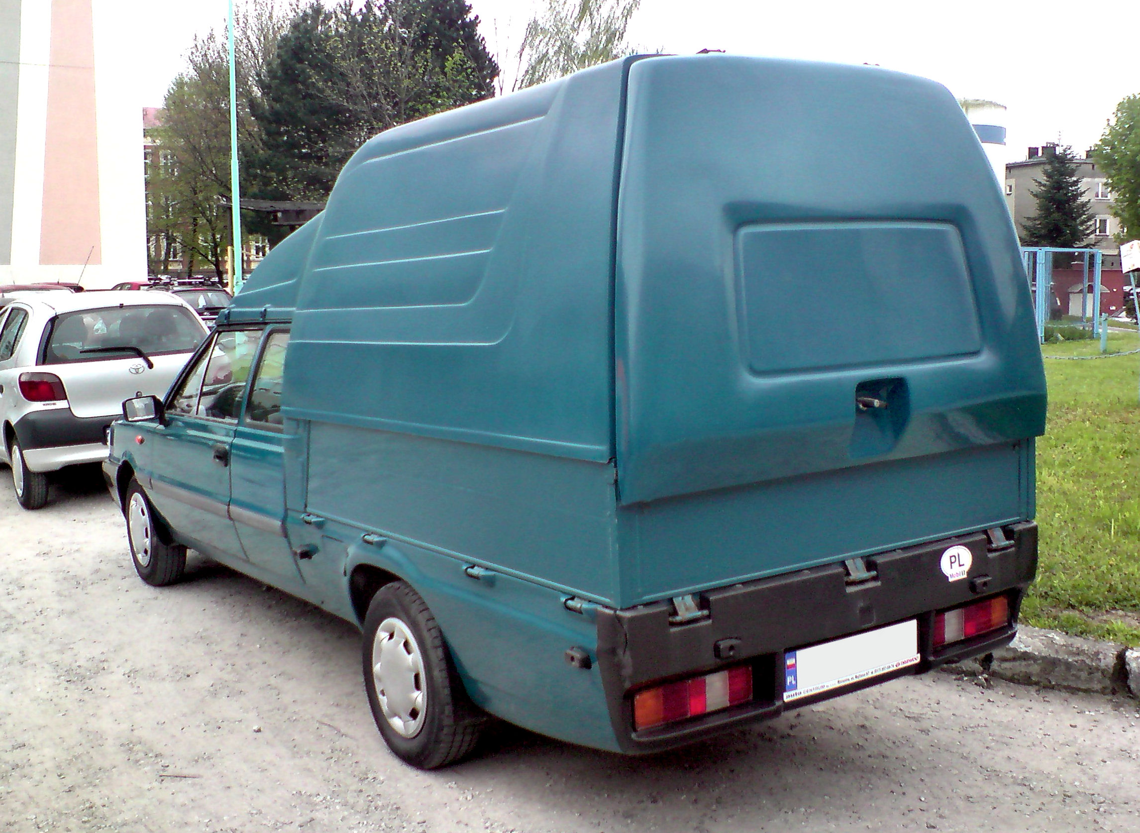 Daewoo-FSO Polonez Truck Plus seen in Rzeszów, Poland.